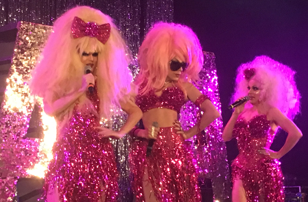 Girl group, The AAA Girls, performing their opening number "AAA", during their 2017 tour, Access All Areas Tour. The concert was held at the Oriental Theater in Denver, CO, on October 8, 2017.